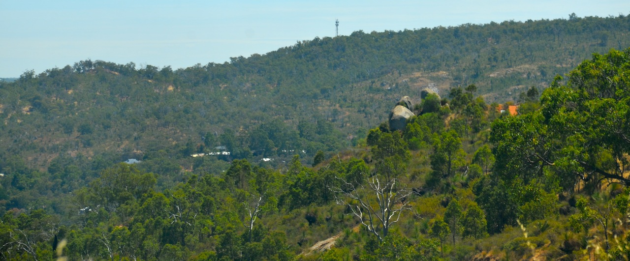 Looking north at Greenmount Hill (locally known sugarloaf on which the BMX reserve exists at the left skyline), as well as the communications tower which is in the greenmount national park on skyline upper right) and small part of Boya, Western Australia taken from the south side of Stathams Quarry in Gooseberry Hill - (the quarry is just the other side of rock outcrop in mid rhs of picture)